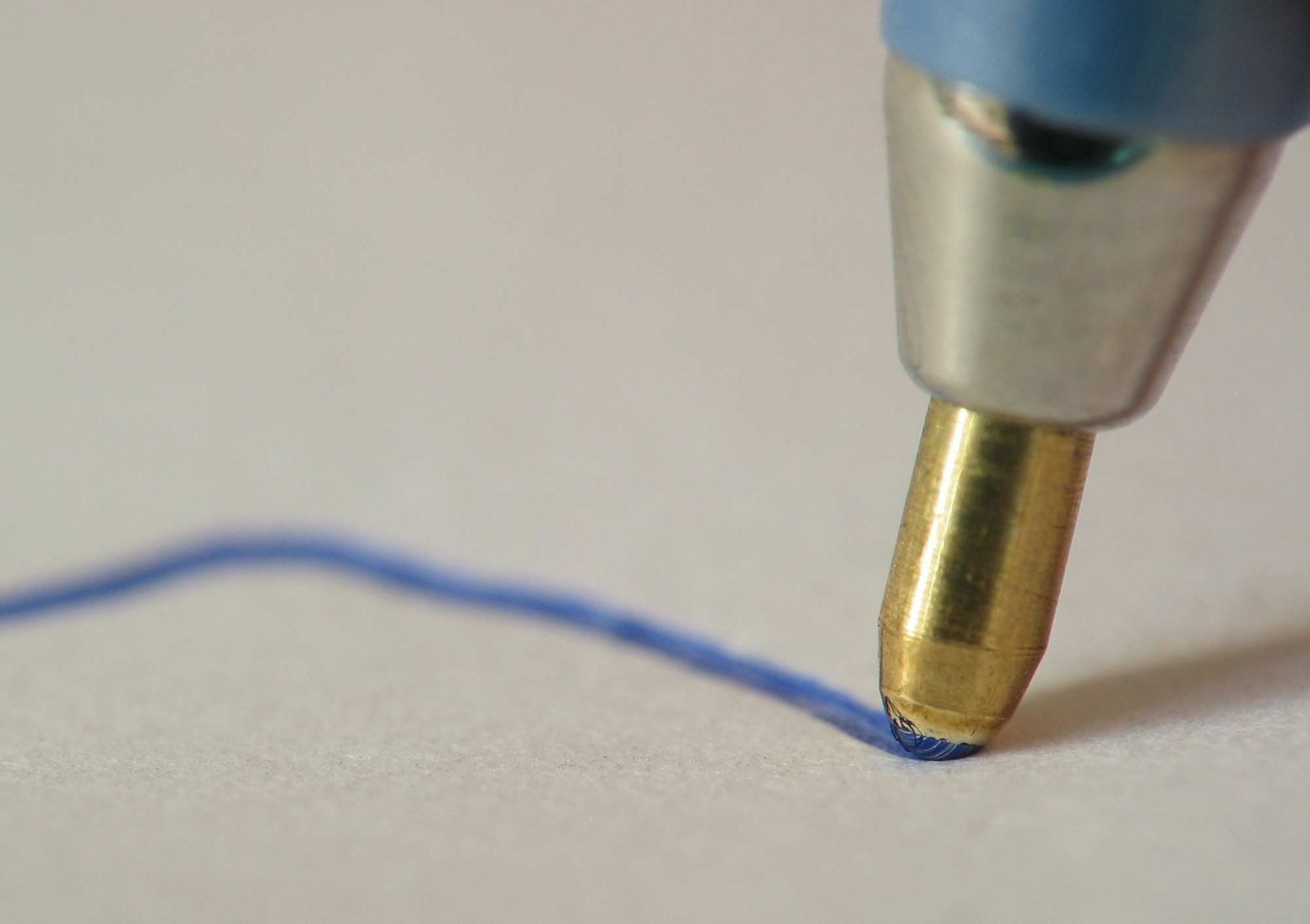 Ballpoint pen writing. Streaks of ink are visible on the ball, indicating the direction of rotation.